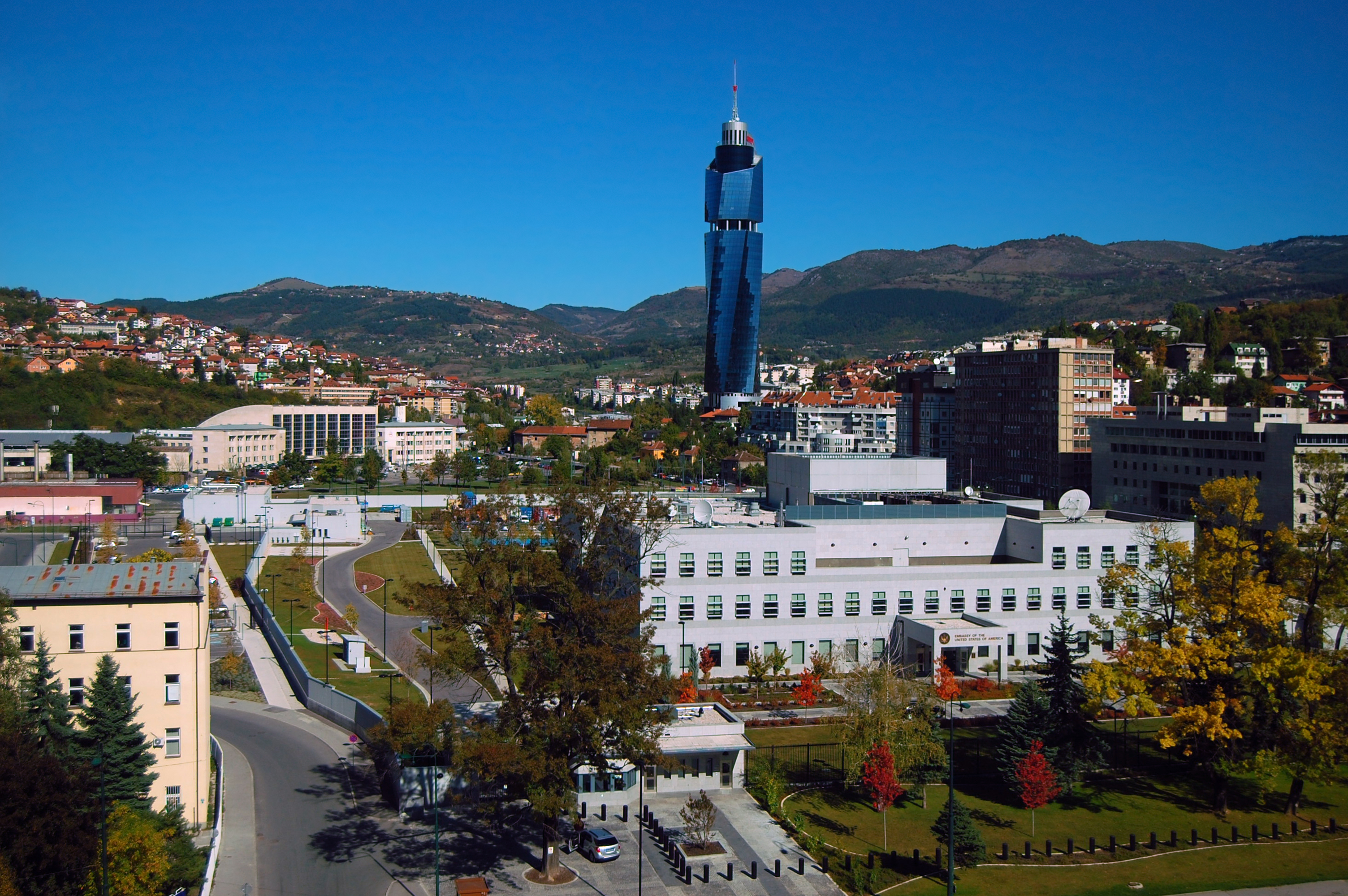 A view from Importanne Shopping Center